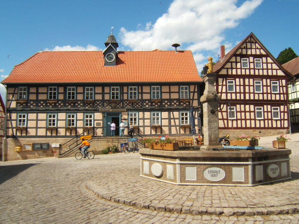 Market in Ummerstadt, South Thuringia